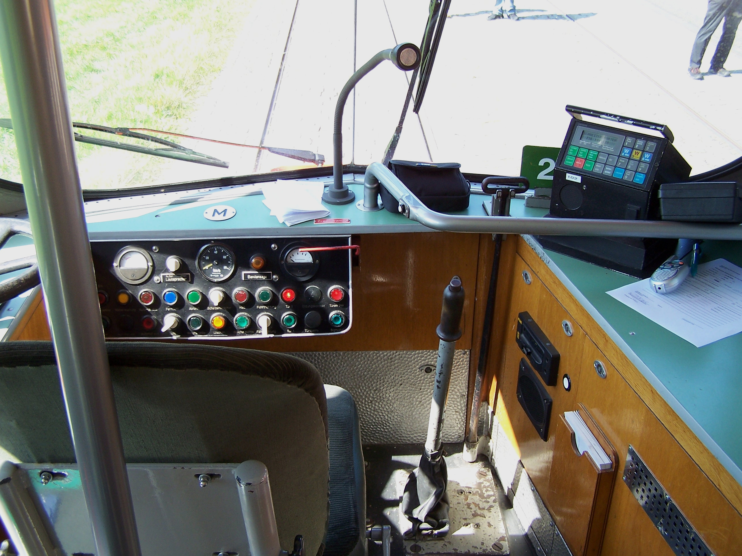 Tramway at Frankfurt am Main: Driver's cab of VGF type M railcar 102 (602) in Frankfurt-Sachsenhausen, August 1st, 2009